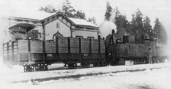 1918 Finnish Civil War White Guard armoured train "Karjalan pelastaja" (The Saviour of Karelia) at the Antrea railway station.